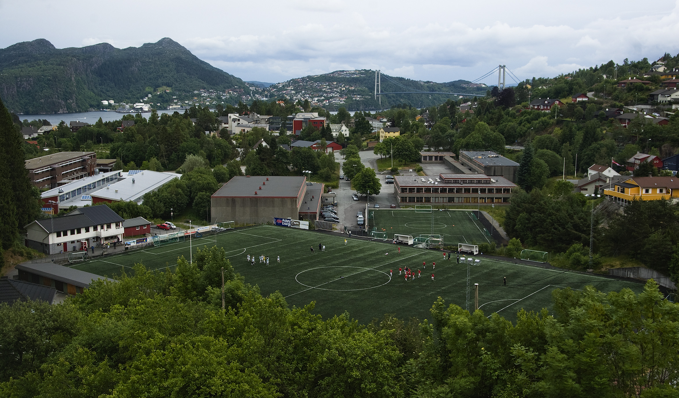 Kleppestø, Askøy, Norway. Bergen and the Askøy Bridge in the background.